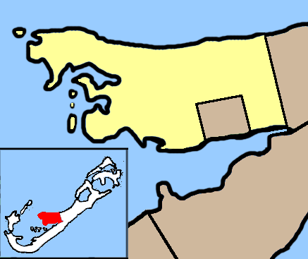 Map of Bermuda showing Pembroke parish.